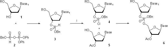 Chemist234